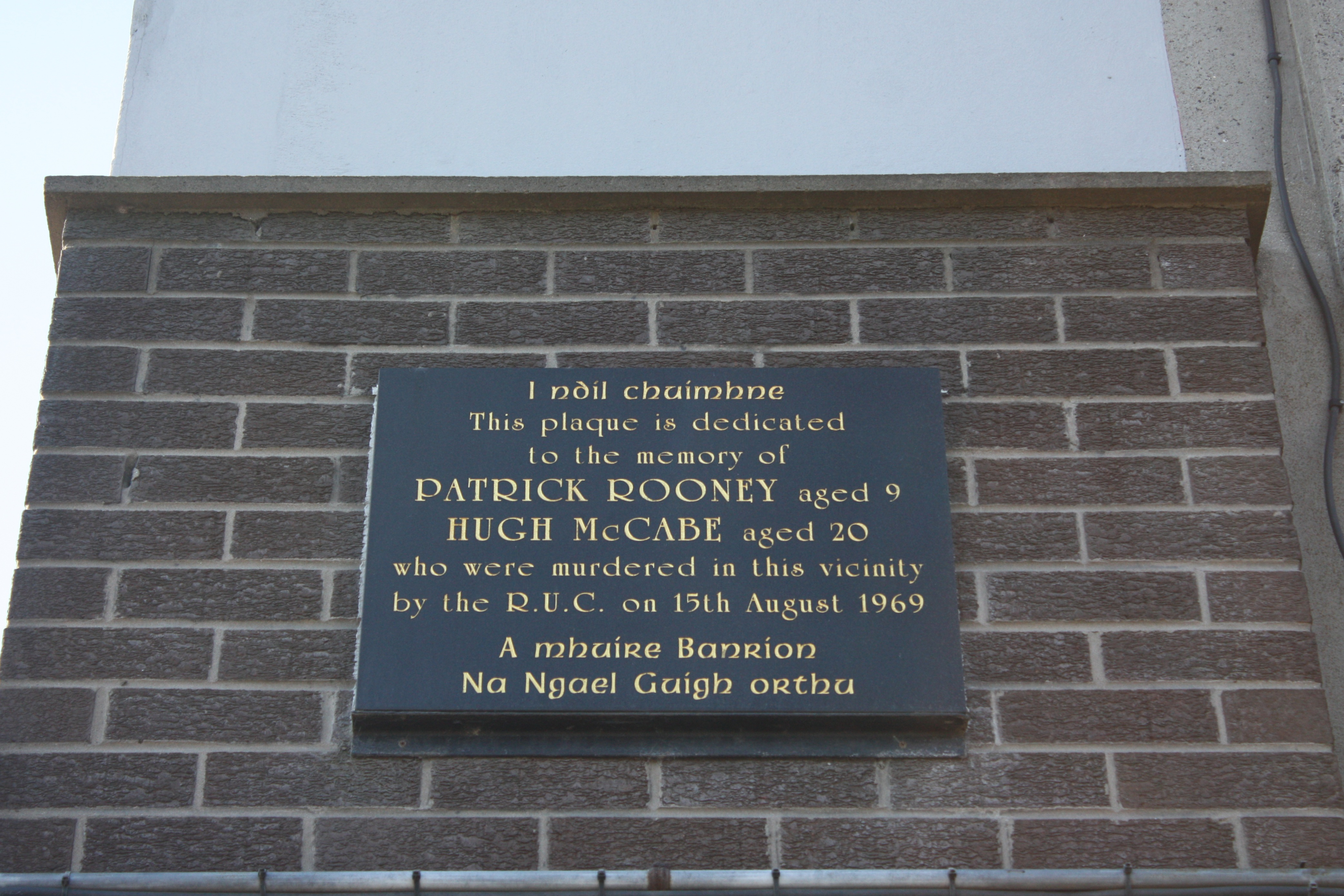 Plaque on Divis Tower, Divis Street, Belfast, Northern Ireland, May 2011